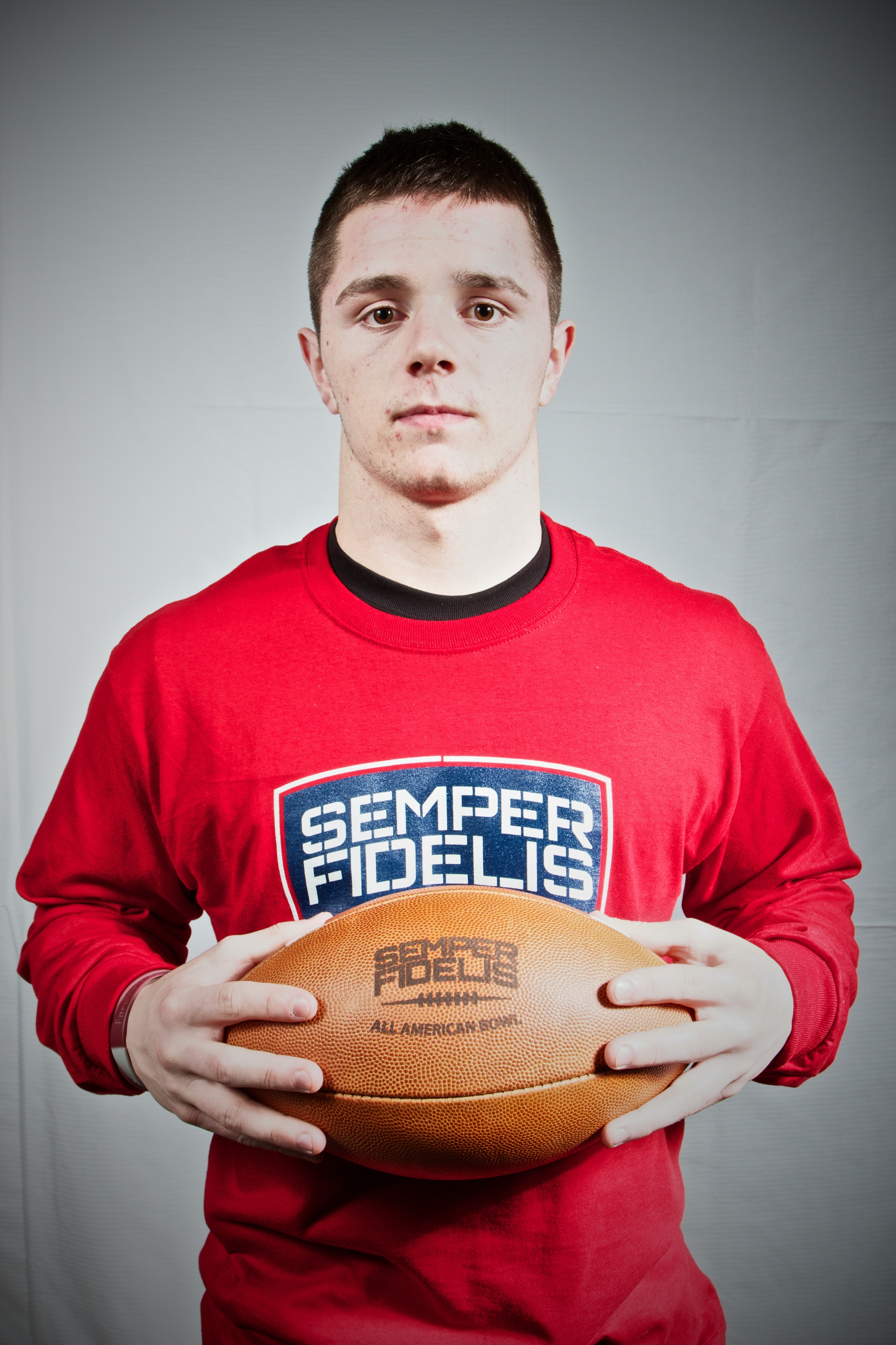 Ryan Switzer, from George Washington High School in Charleston, Wv., arrives in Los Angeles Dec. 30, 2012, to play in the Semper Fidelis All-American Bowl game, which will air on the NFL Network at 6 p.m., Jan. 4. The Semper Fidelis All-American Bowl brings together more than 100 student athletes from across the country who not only show excellence on the field, but off the field as well.